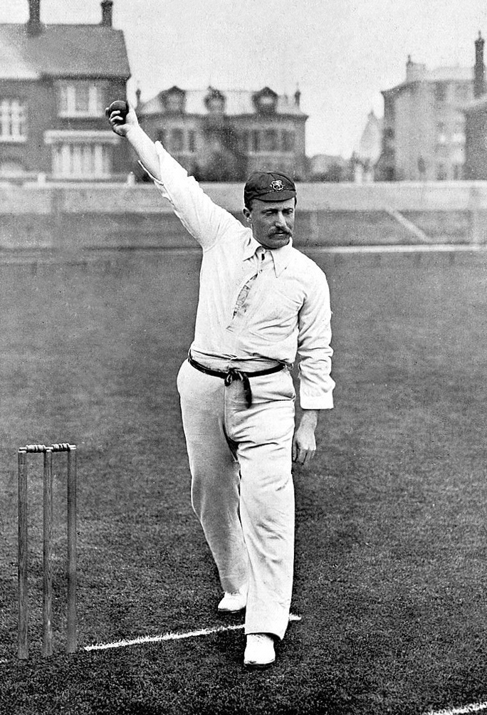 Scan of cricketer George Nichols